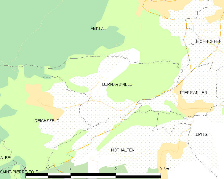 Map of French municipality